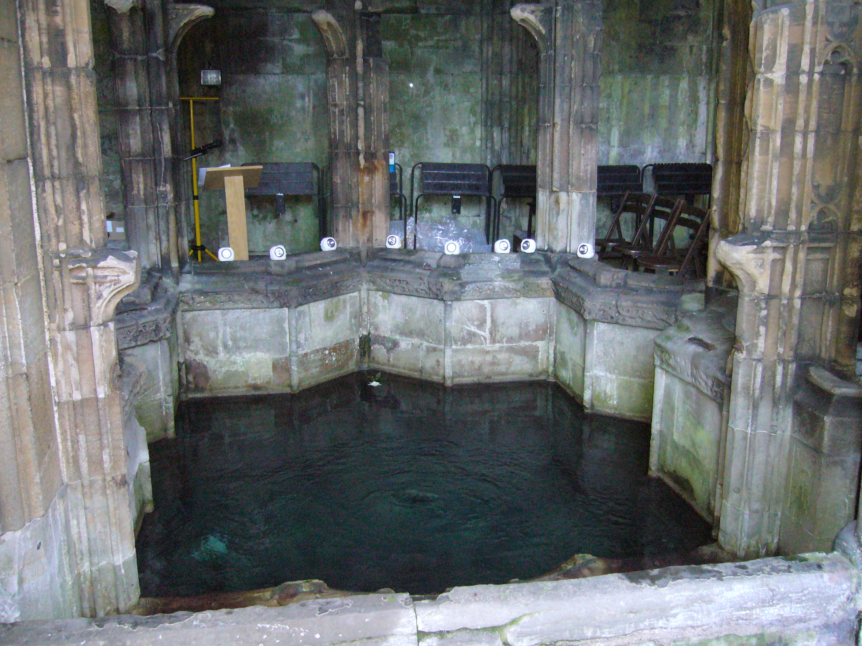 St Winefride's Well, showing water flowing upwards from the source.